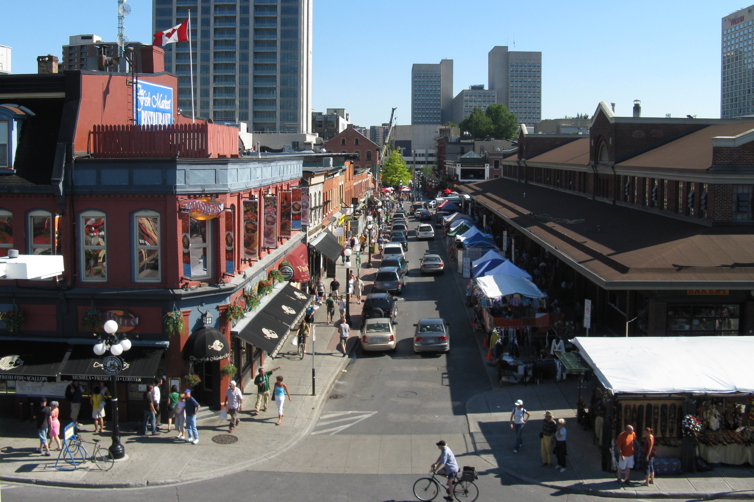 Byward Market in Ottawa, Canada - view south.